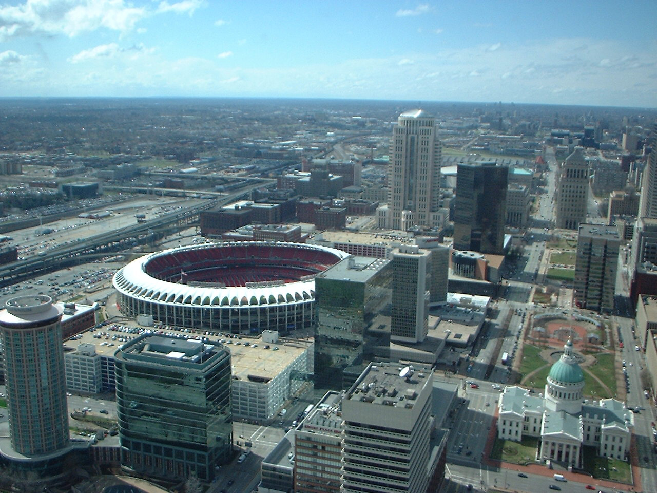 Downtown St. Louis as viewed from the top of the gateway arch. The stadium is Busch stadium where the St. Louis Cardinals play.